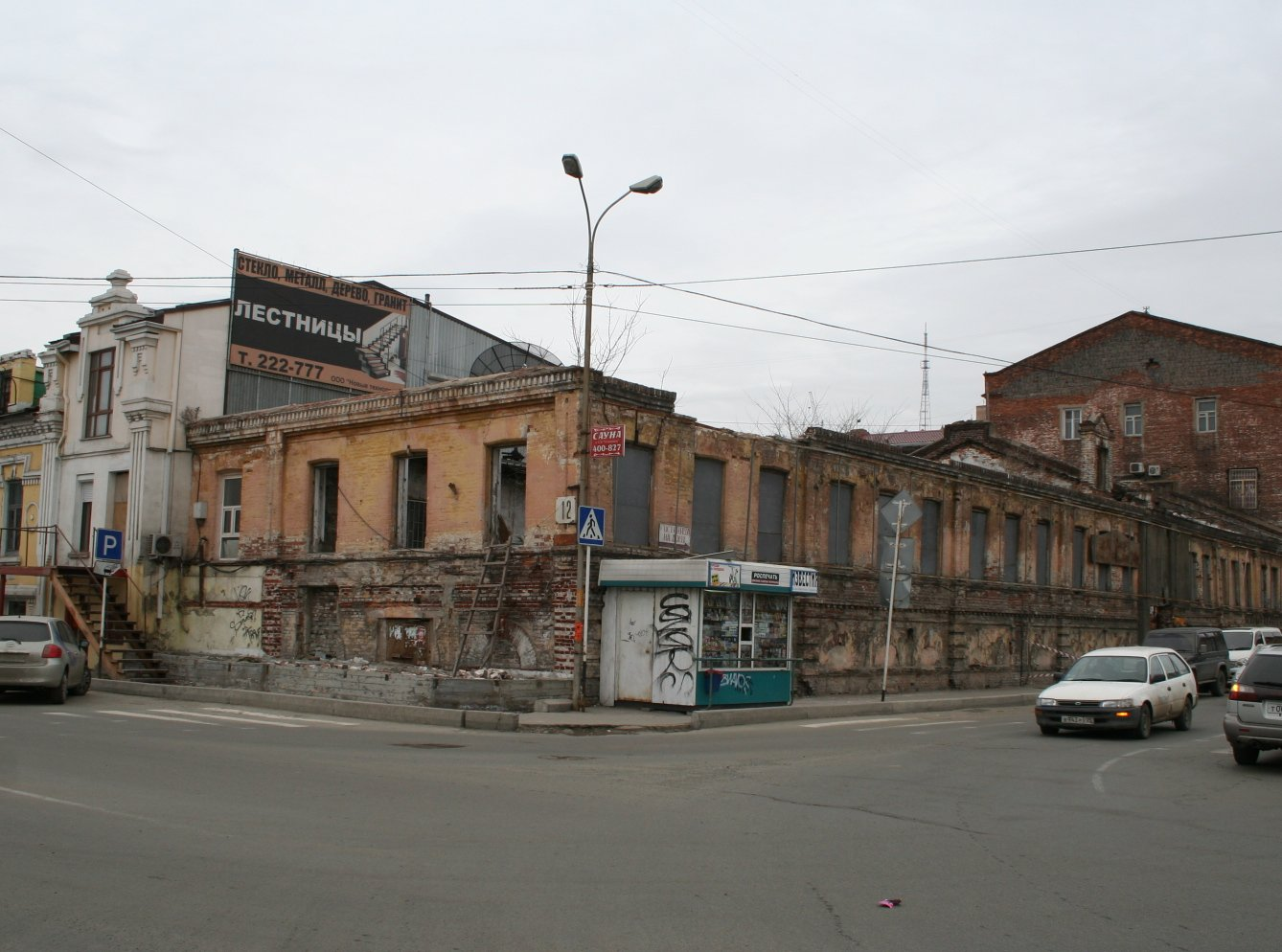 A part of the former Chinatown, Millionka, in Vladivostok, Russia. The courtyard of this house on the corner of Pogranichnaya and Semenovskaya Streets was used for Chinese theatre.